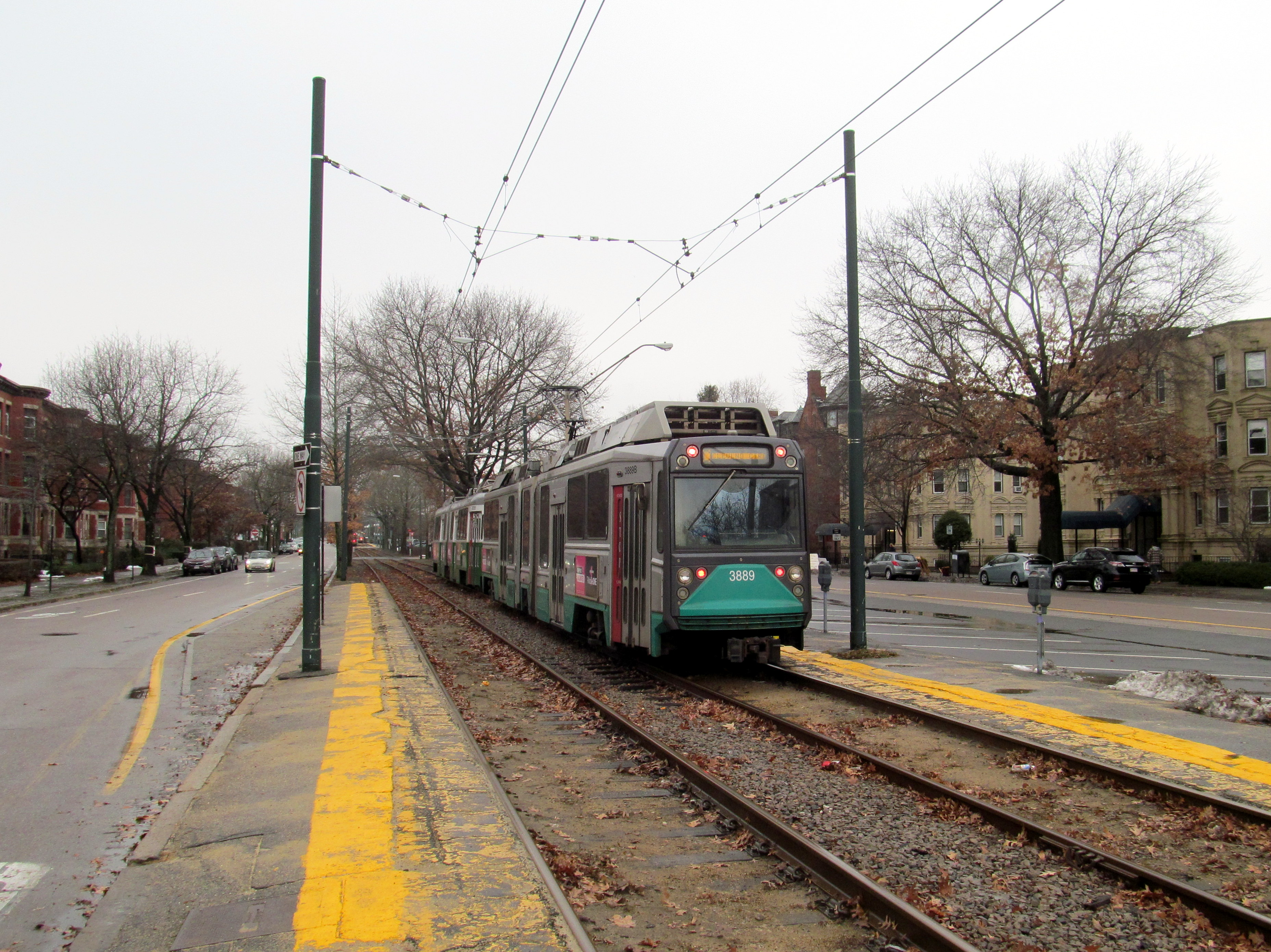 An outbound train at Englewood Avenue station in December 2016